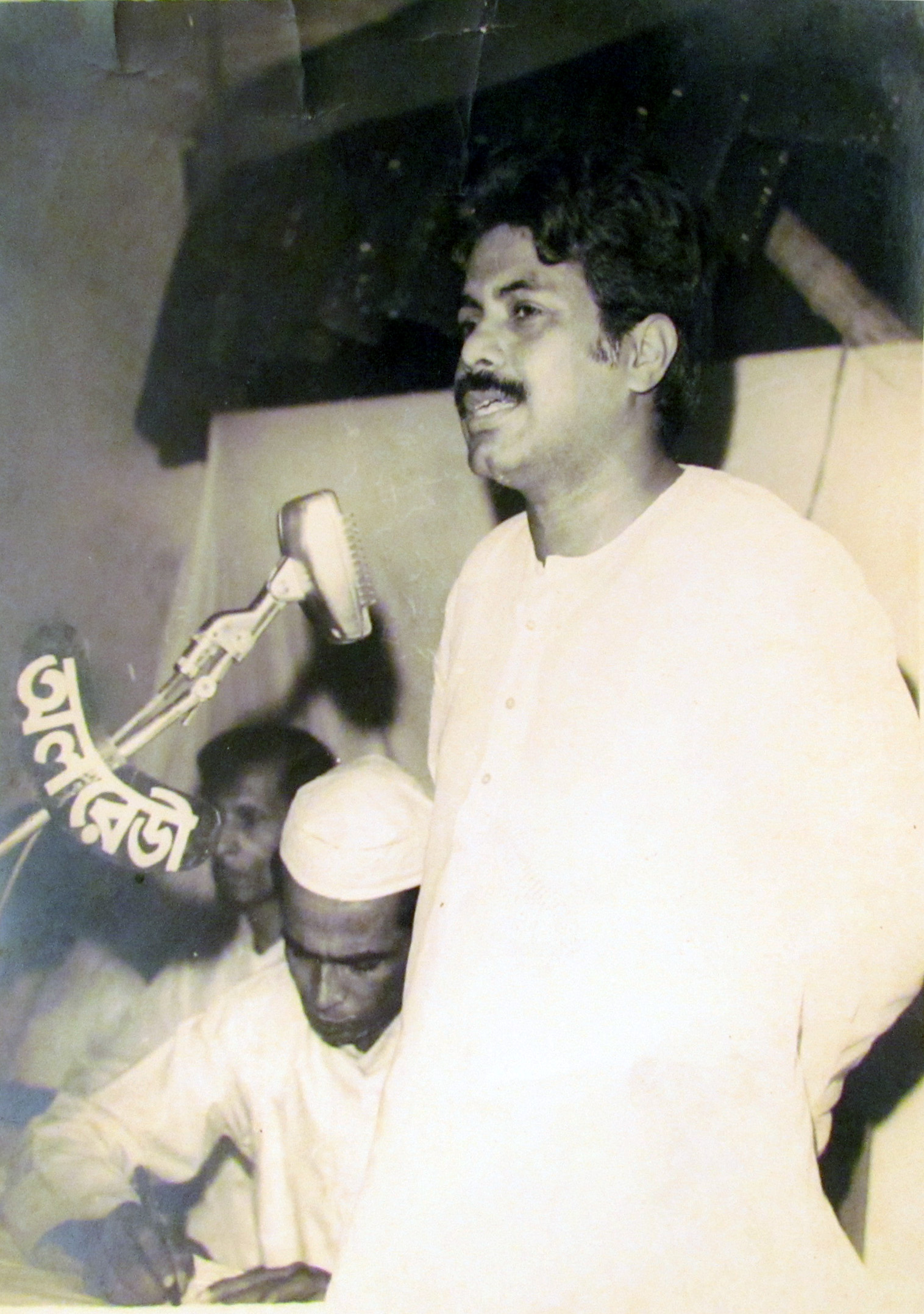 Firoze Noon as the VP of East Pakistan Student League